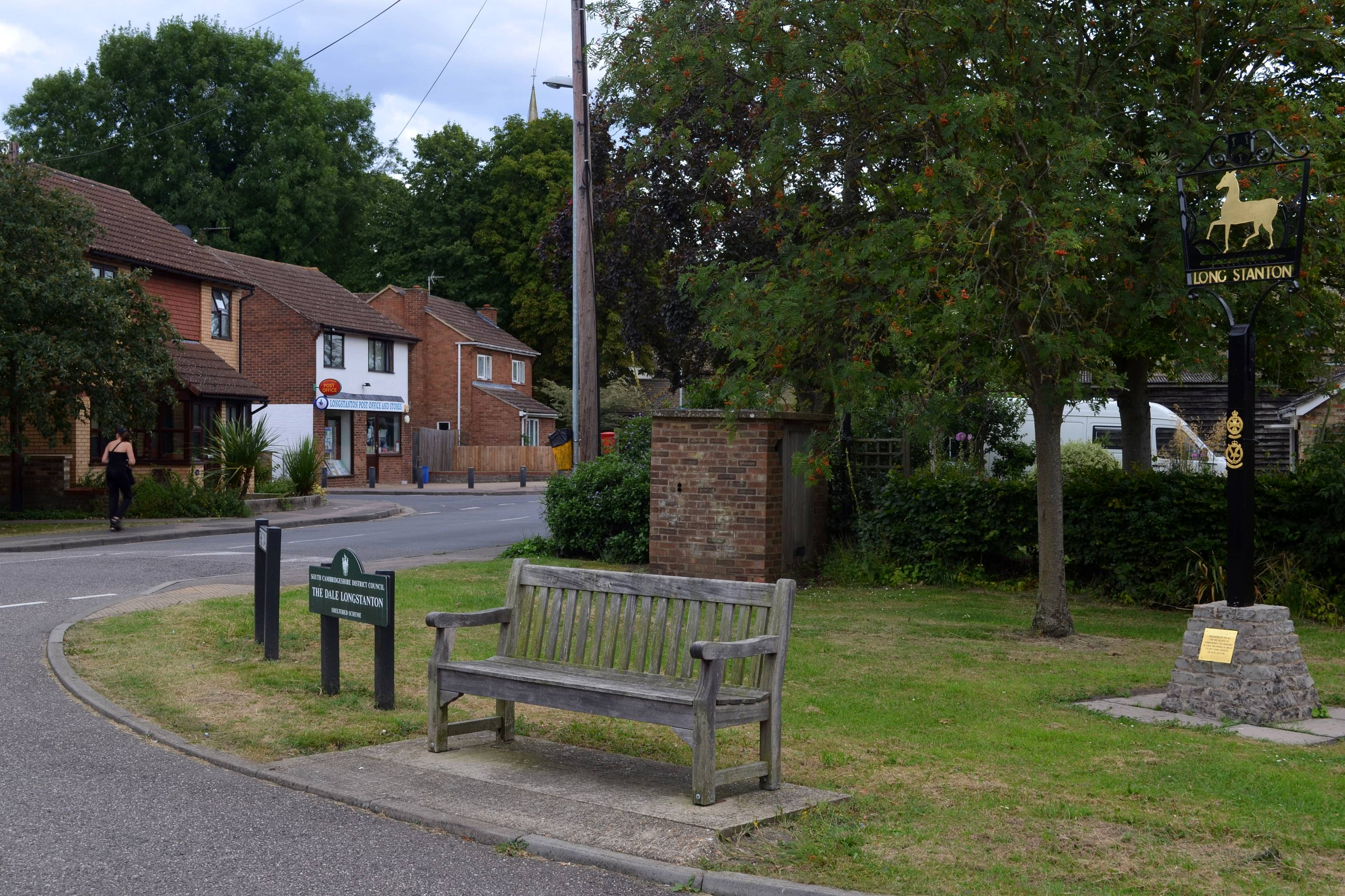 Post office and village sign of Longstanton, Cambridgeshire, England in July 2014.